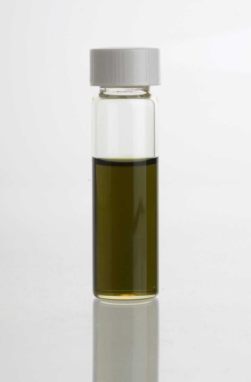 Glass vial containing Bergamot (Citrus × bergamia, Risso & Poit.) Essential Oil